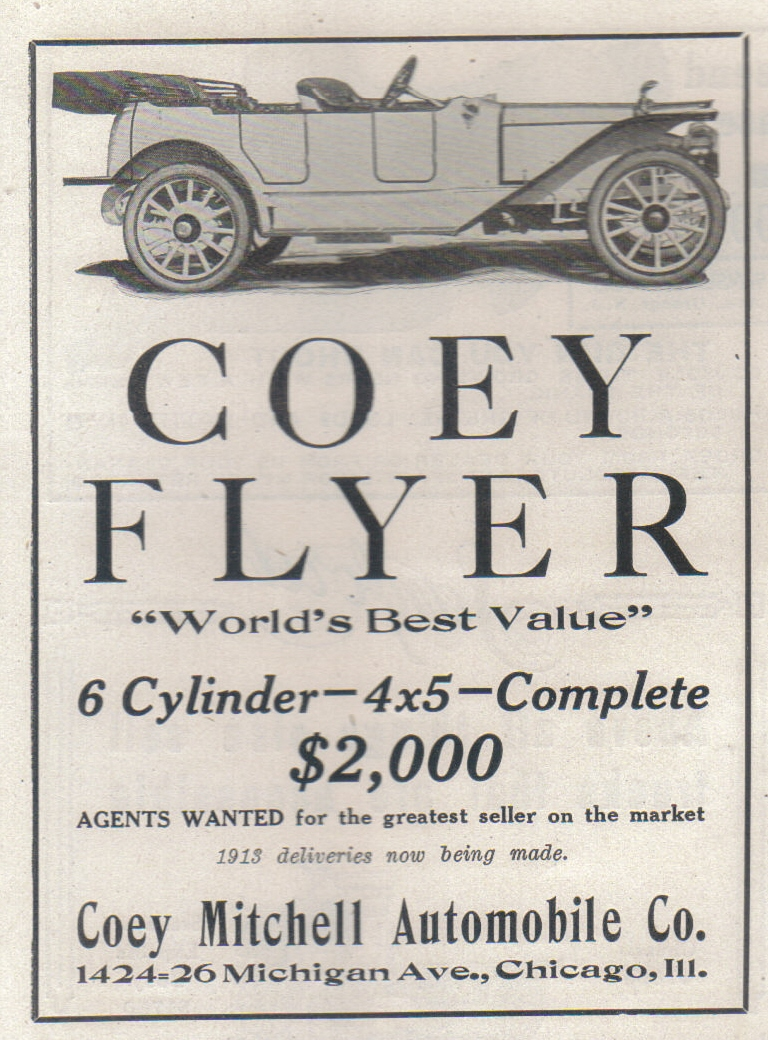 Coey Flyer touring car, made by the Coey Mitchell Automobile Co., 1424-26 Michigan Ave., Chicago, IL.